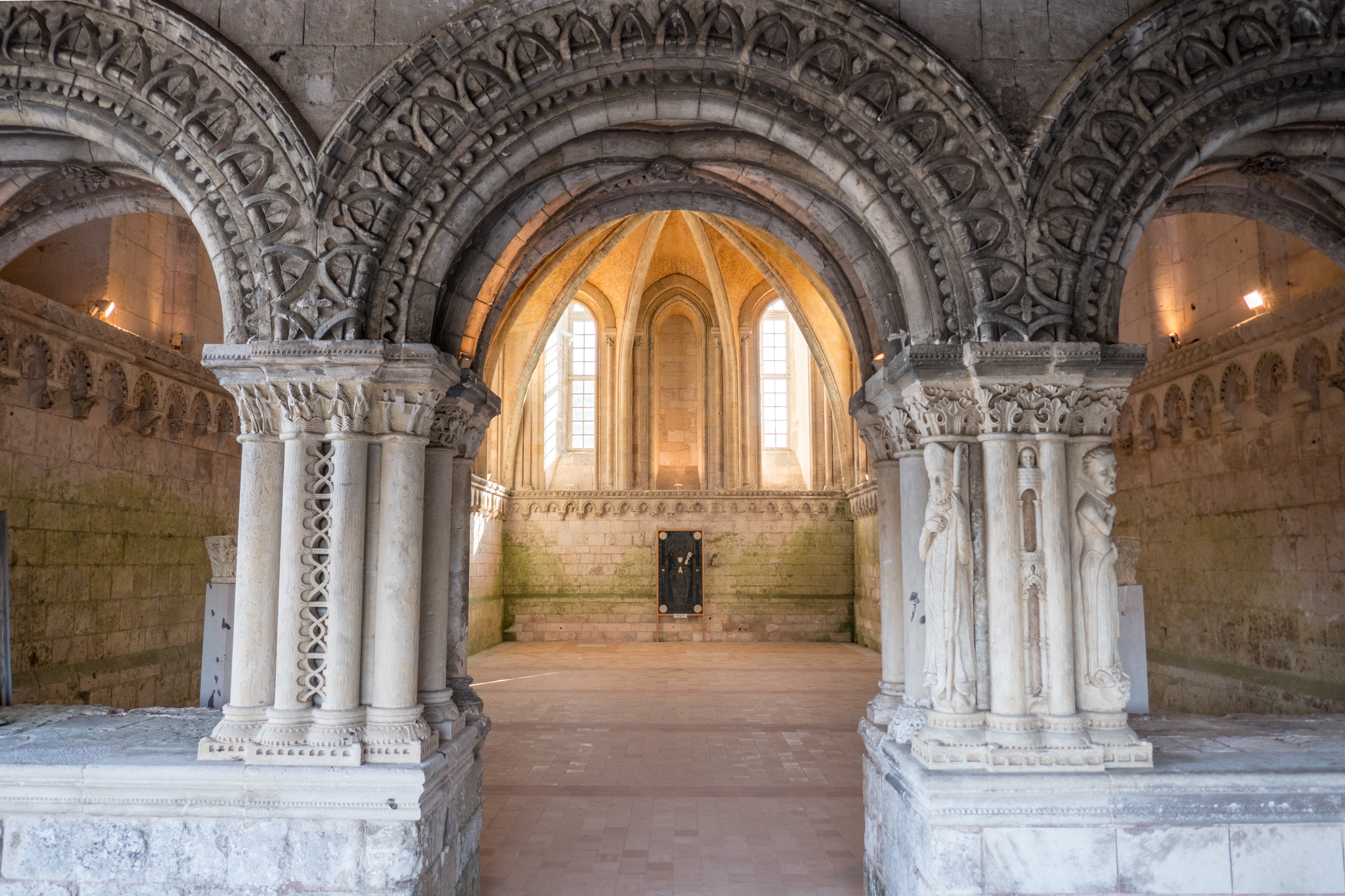 Exterior looking into chapter house of Abbaye Saint-Georges de Boscherville